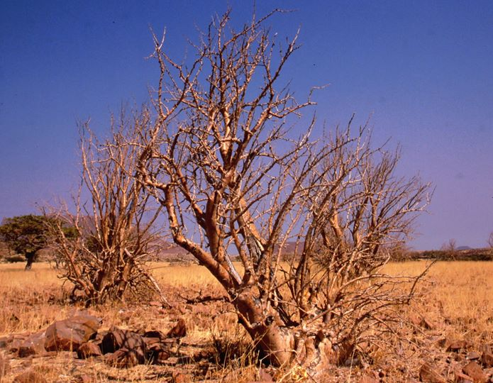 Sesamothamnus guerichii (Engl.) E.A.Bruce on way to Palmwag, Namibia